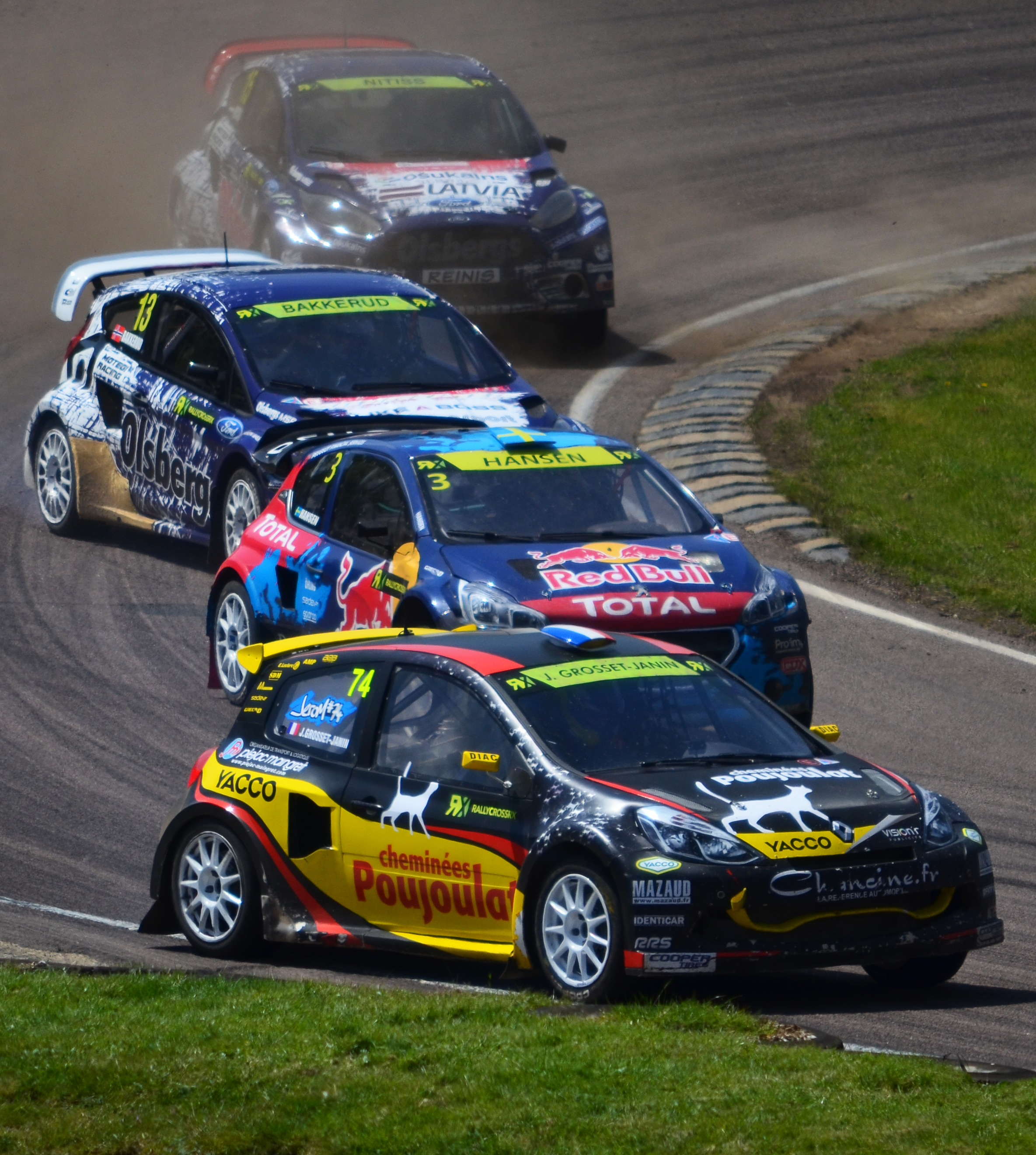 Superbly close racing at Lydden Hill for round 2 of the 2014 FIA World Rallycross Championship as Jérôme Grosset-Janin leads Timmy Hansen, eventual winner Andreas Bakkerud and Reinis Nitišs through the Devil's Elbow.